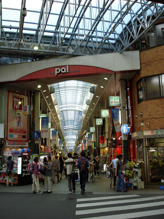 town